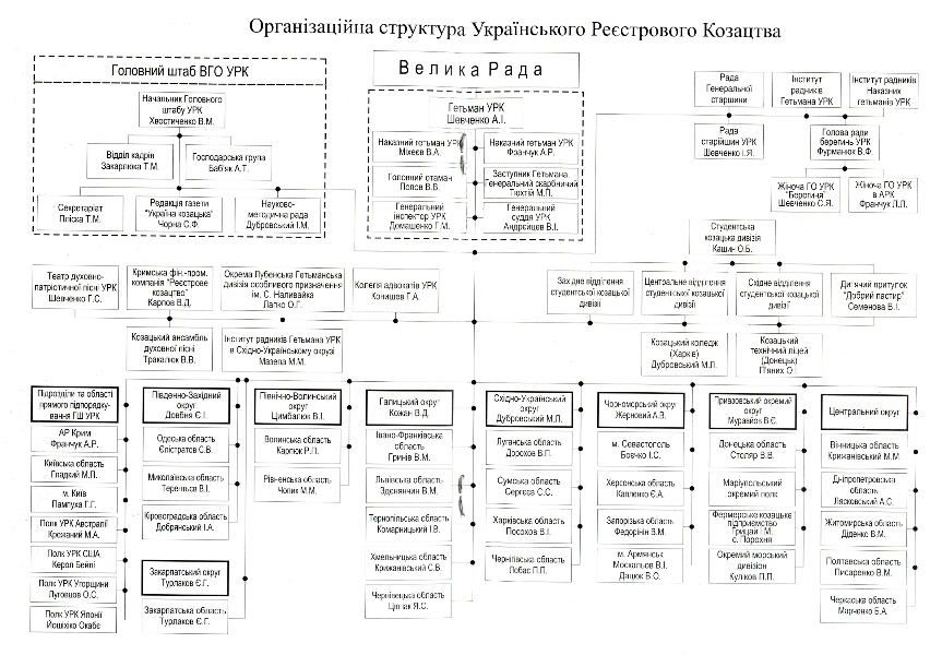 The organizational structure of The Ukrainian Registered Cossacks orgatization, as of 1 January 2008